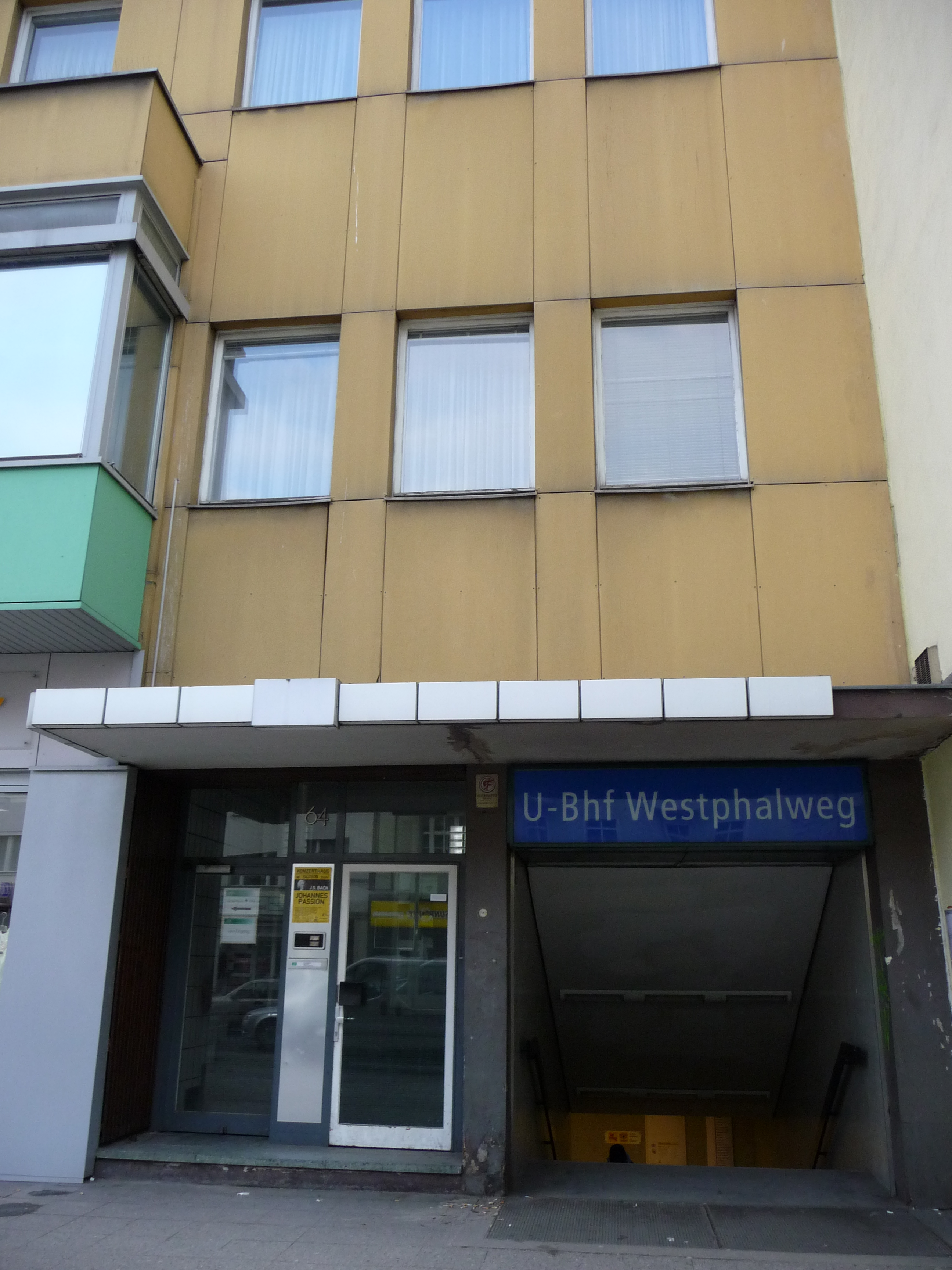 Station : Westphalweg (Underground, Berlin (Germany), U6) entrance build in a residential building